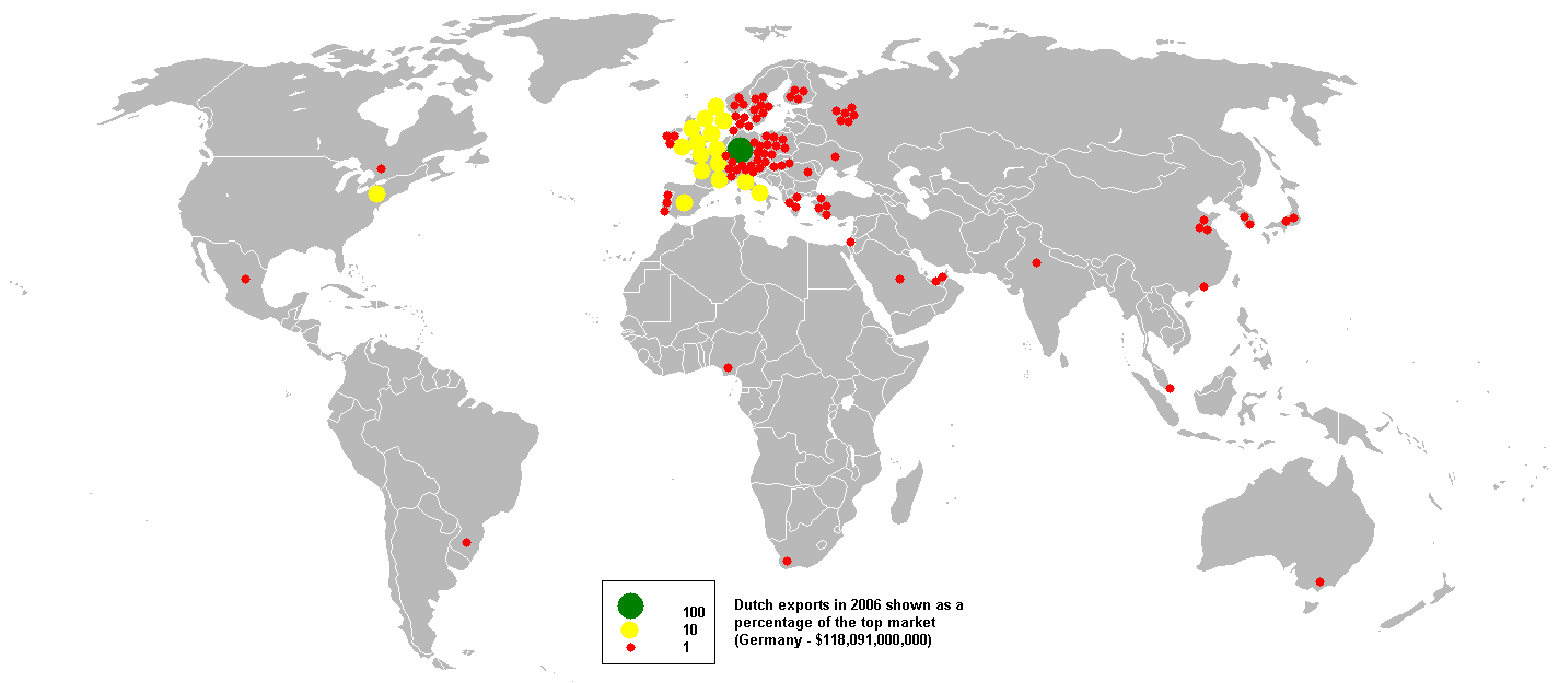 This bubble map shows the global distribution of Dutch exports in 2006 as a percentage of the top market (Germany - $118,091,000,000). This map is consistent with incomplete set of data too as long as the top producer is known. It resolves the accessibility issues faced by colour-coded maps that may not be properly rendered in old computer screens.